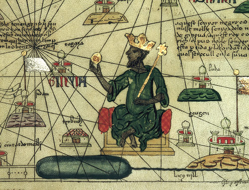 Depiction of Mansa Musa, ruler of the Mali Empire in the 14th century, from a 1375 Catalan Atlas of the known world (mapamundi), drawn by Abraham Cresques of Mallorca. Musa is shown holding a gold nugget and wearing a European-style crown. The section to the right translates as: This Negro lord is called Musa Mali, Lord of the Negroes of Guinea. So abundant is the gold which is found in his country that he is the richest and most noble king in all the land.[1] Literally, in the text he is called musse melly.